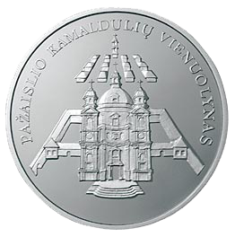 50 Litas coin to commemorate the Pazaislis camaldolese monastery (from the series "Historical and Architectural monuments of Lithuania") Silver Ag 925 Quality proof Diameter 38.61 mm Weight 28.28 g The words on the edge of the coin: HISTORICAL AND ARCHITECTURAL MONUMENTS Designed by Marius Zavadskis, Rytas Jonas Belevicius Mintage 1,500 pcs Issued 2004 The coin was minted at the state enterprise Lithuanian Mint.